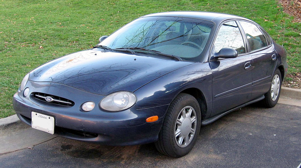 1998-1999 Ford Taurus photographed in USA.